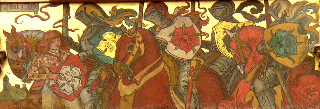 Lords of the Rose, mural by Mikoláš Aleš, realisation 1896, realisation Josef Bosáček, Nerudova Street 10, Pilsen, Czech Republic